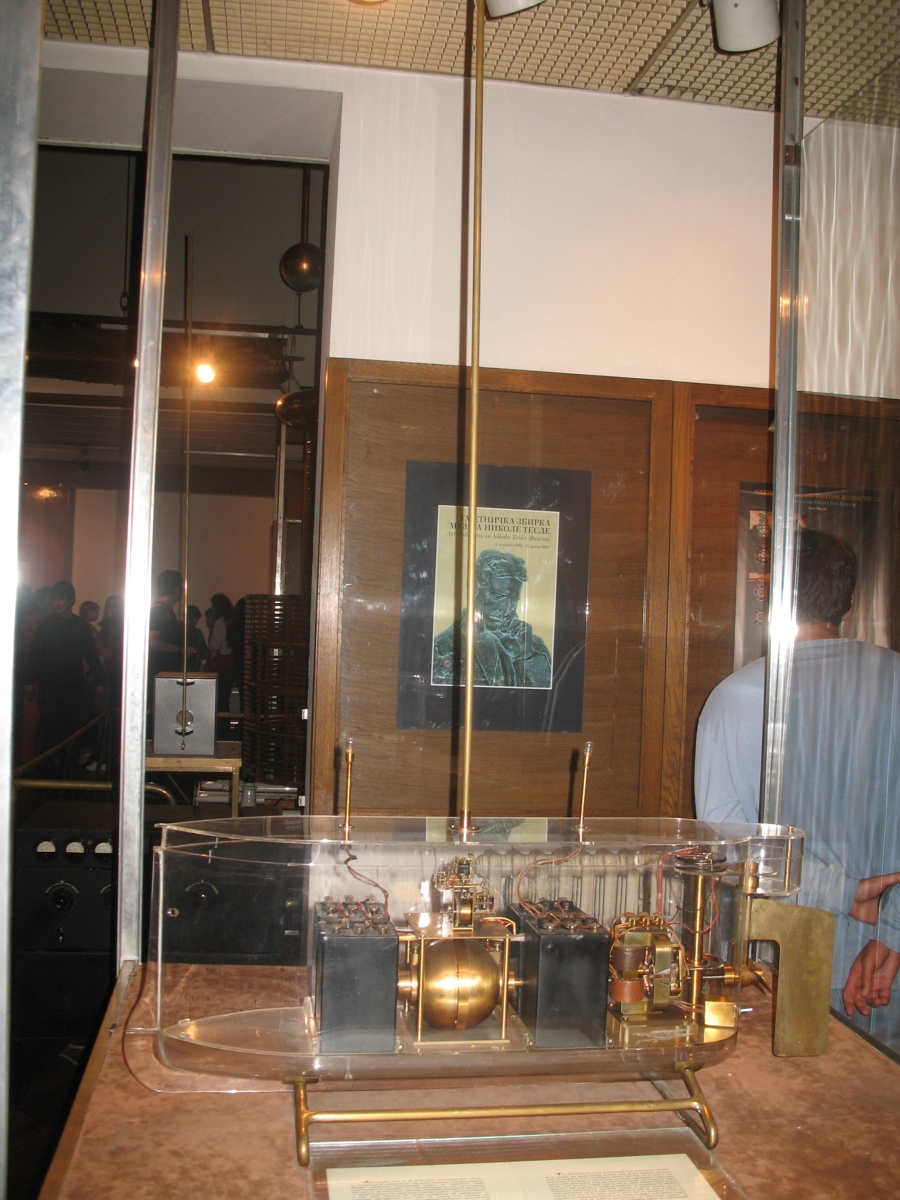 Nikola Tesla Museum in Belgrade, model of boat on remote control.